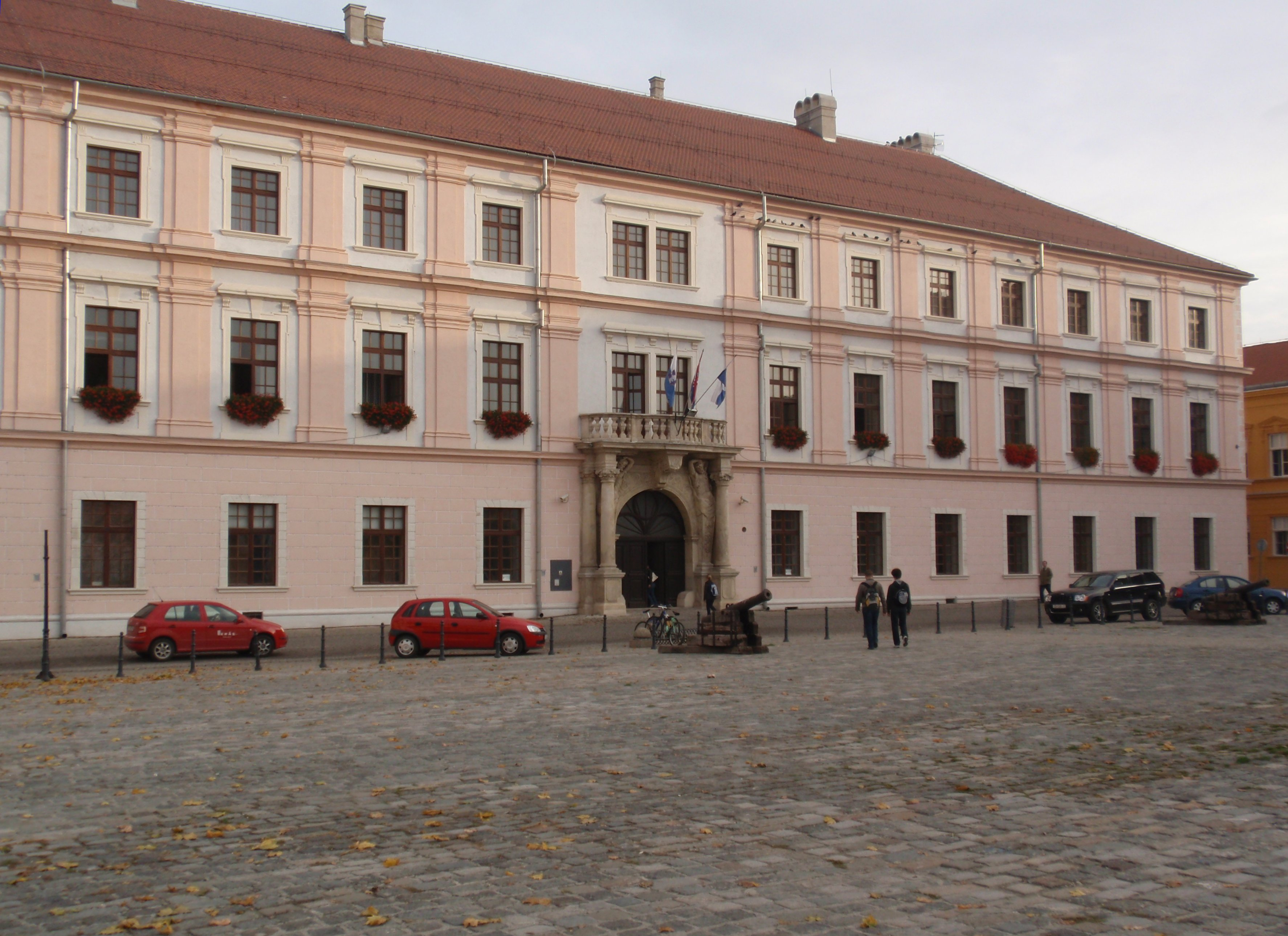 J.J Strossmayer University, Osijek